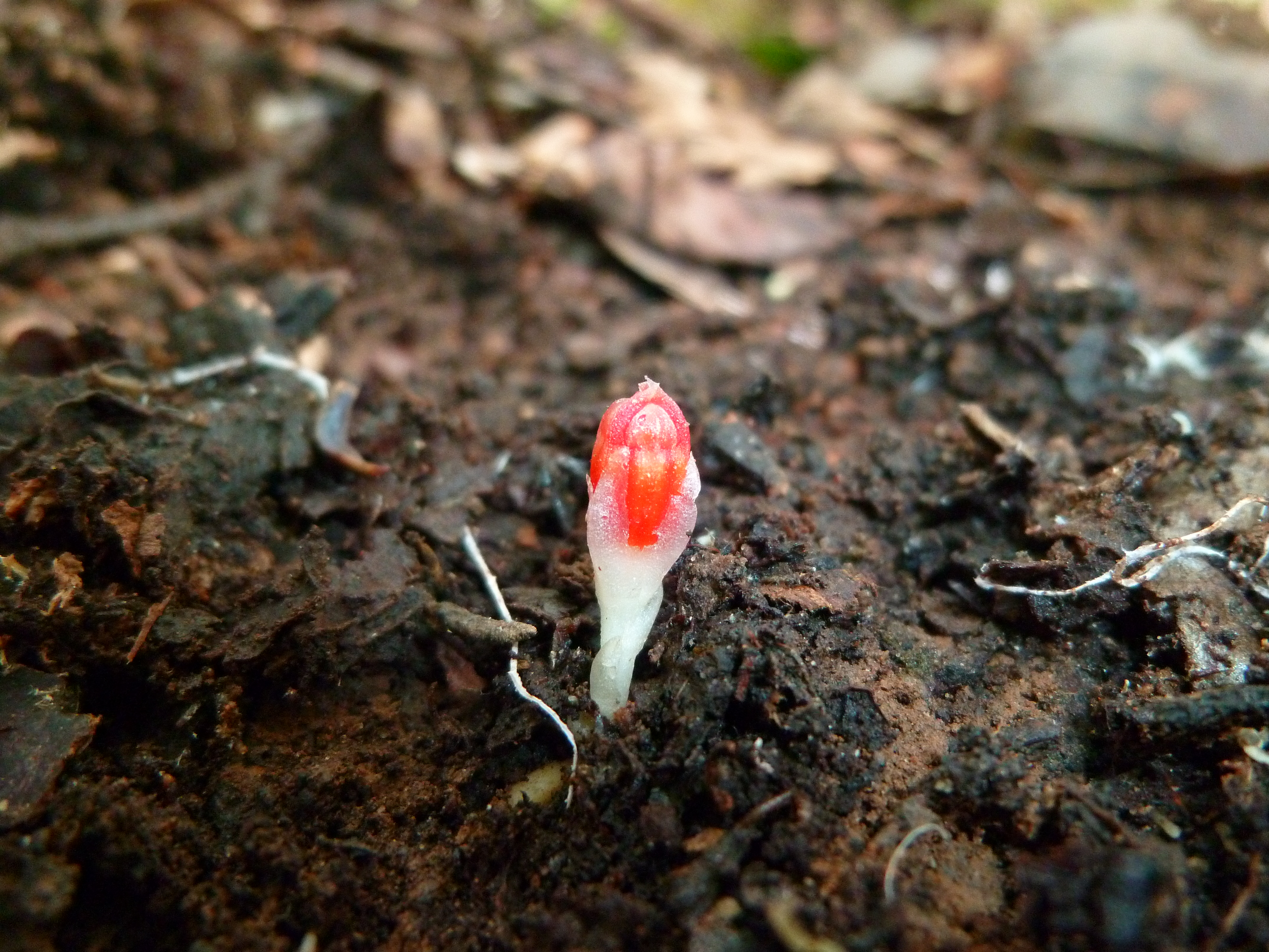 Thismia rodwayi flower bud found in Tassie